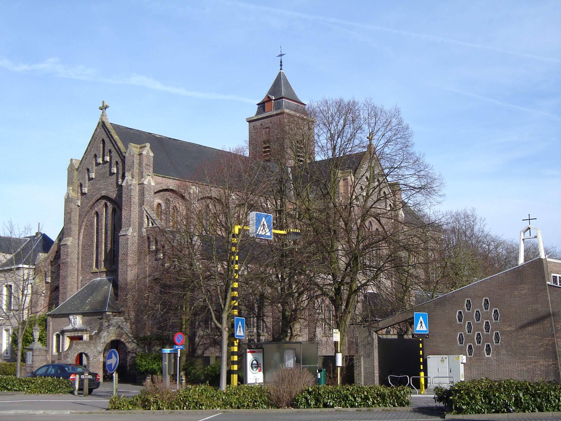 Church of the Sacred Heart and Saint Philip in Steenbrugge. Steenbrugge, Assebroek, Brugge, West Flanders, Belgium.